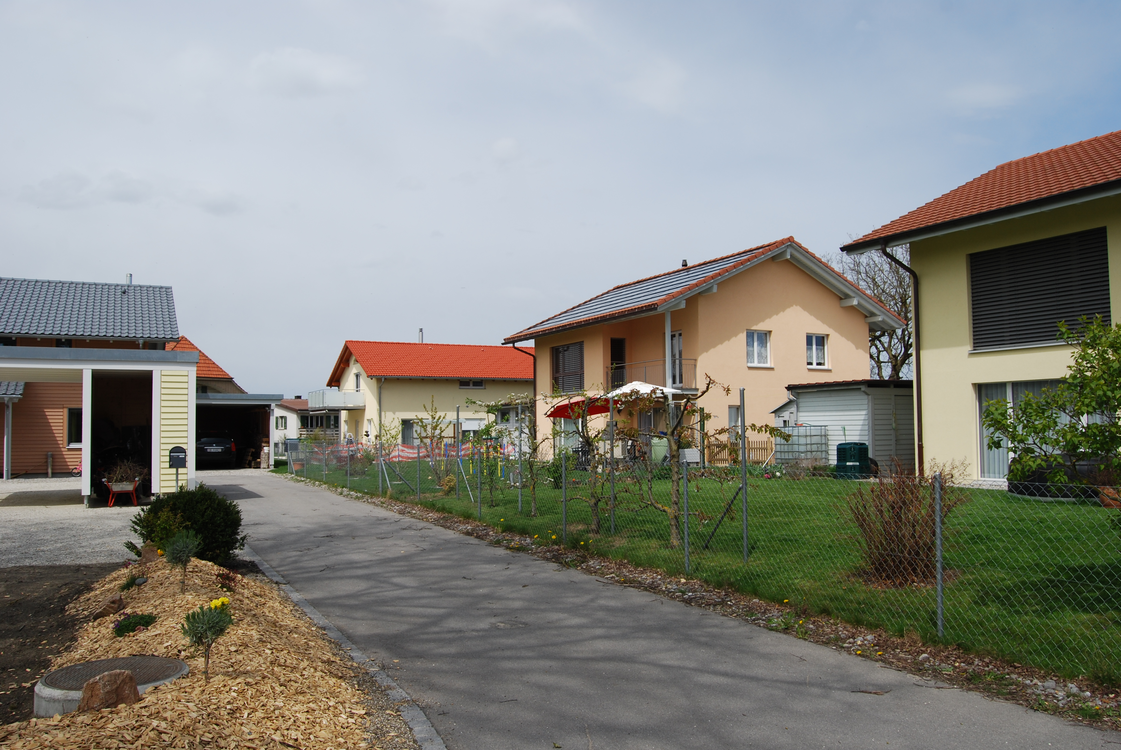 Kriechenwil, canton of Bern, SwitzerlandEsperanto: Kriechenwil, Kantono Berno, Svislando